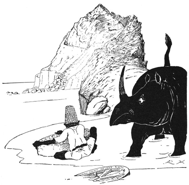 Original woodcut illustration for The Just So story 'How the Rhino got its skin' by Rudyard Kipling